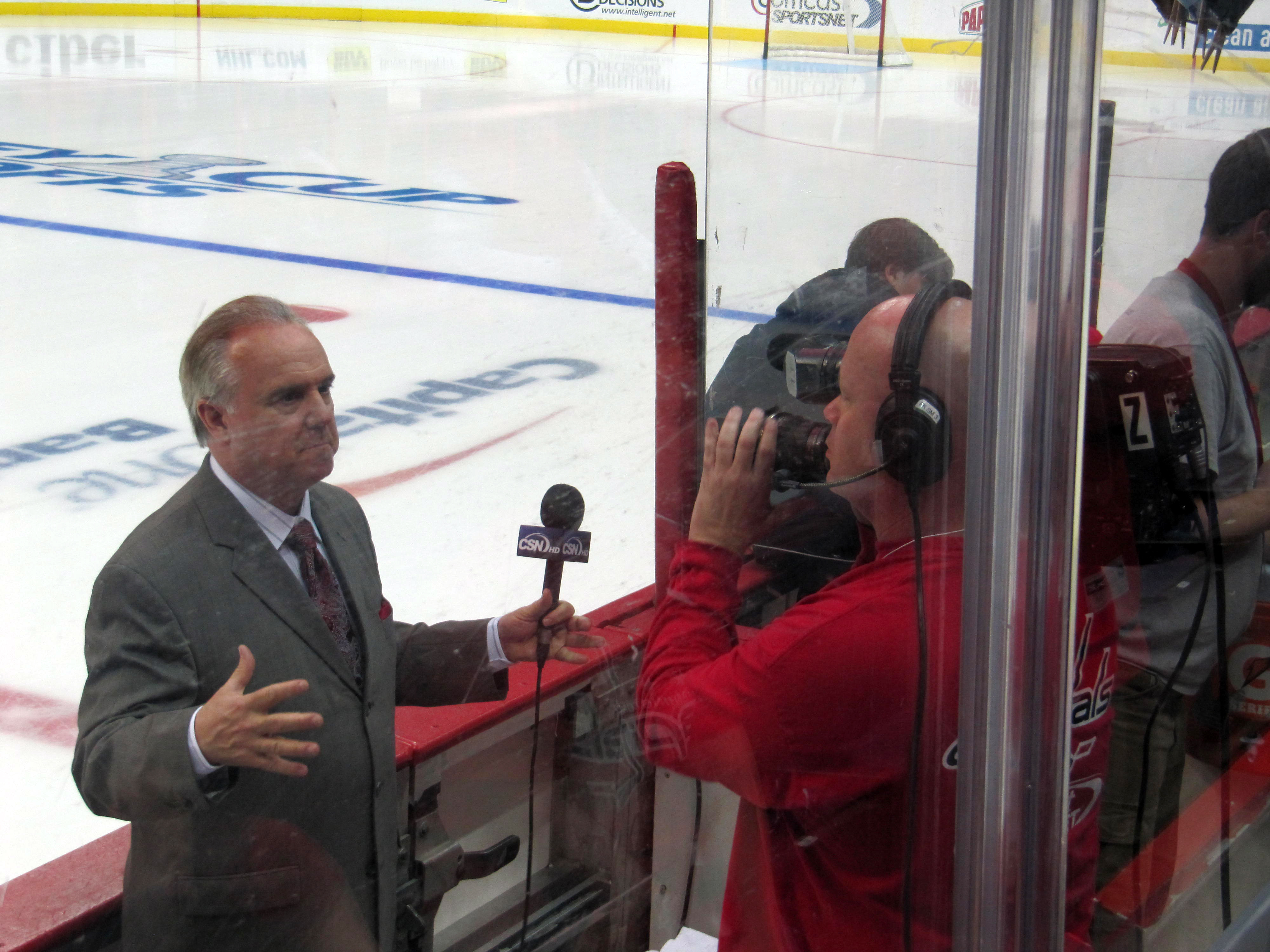 Caps/Habs (April 15, 2010) - 13